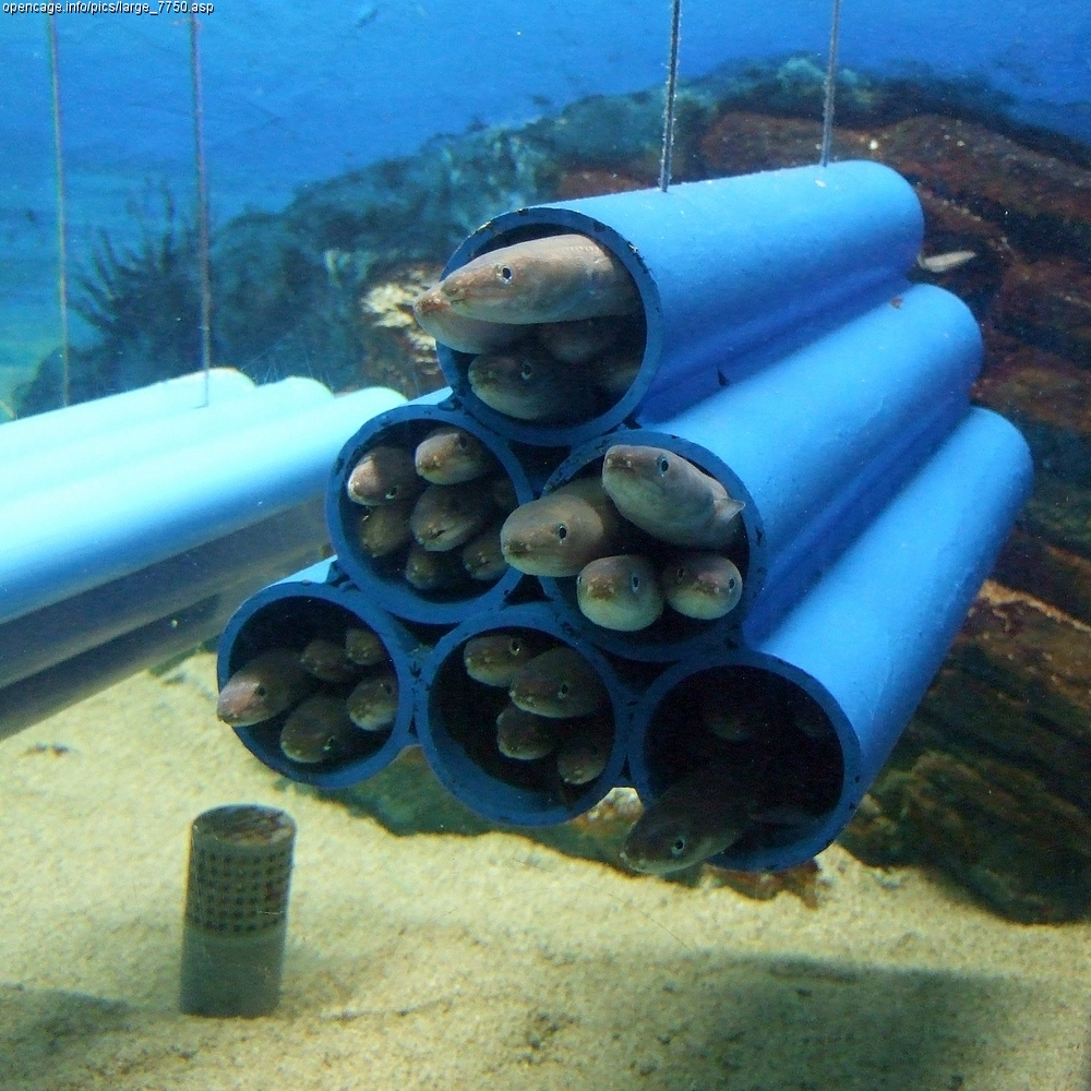 マアナゴ Common japanese conger Species Conger myriaster Familia Congridae Location Suma Aqualife Park, KOBE, japan Other photos; NCBI Taxonomy ID:7943 Copyright OpenCage